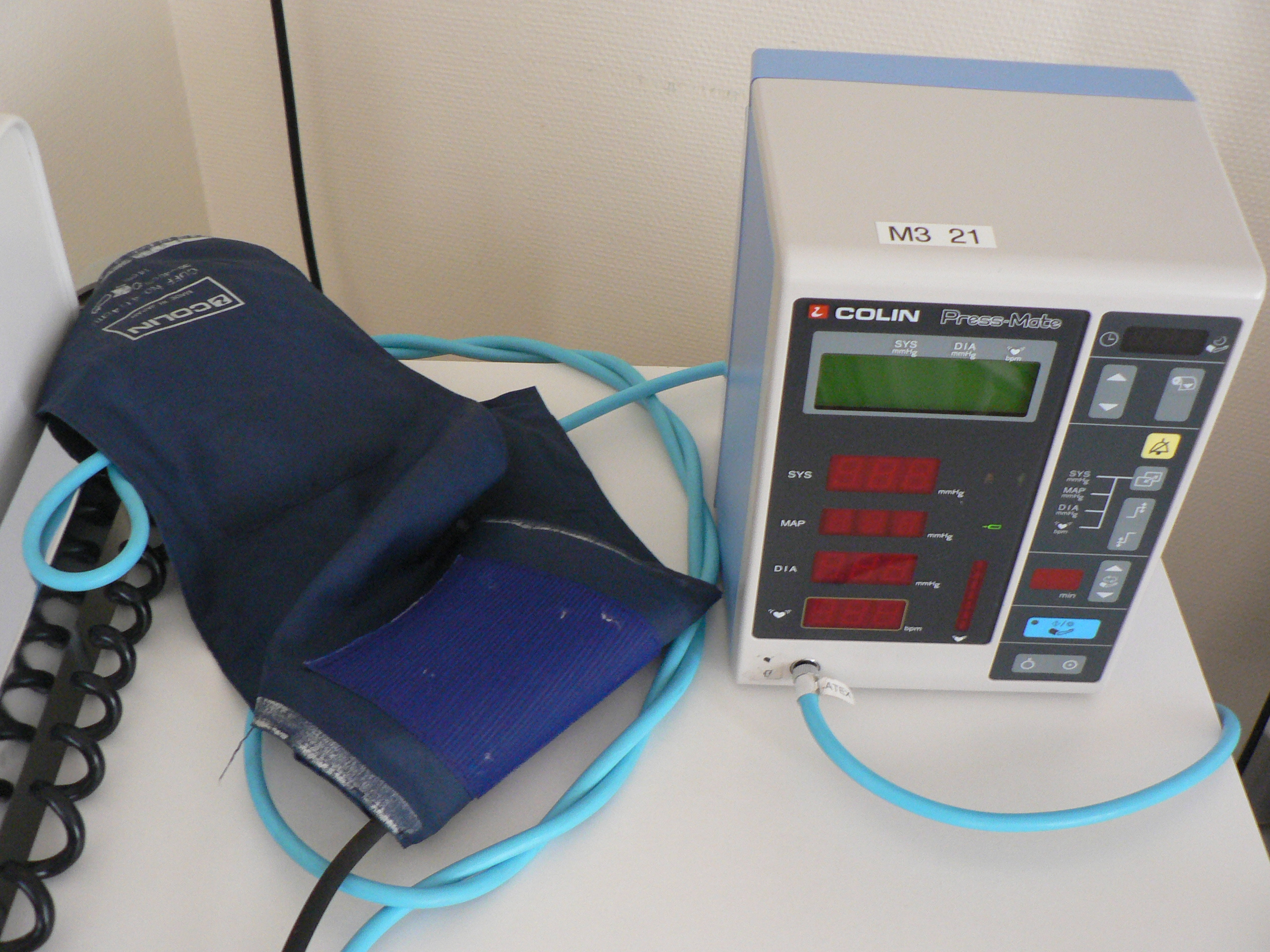 automatic blood pressur meter